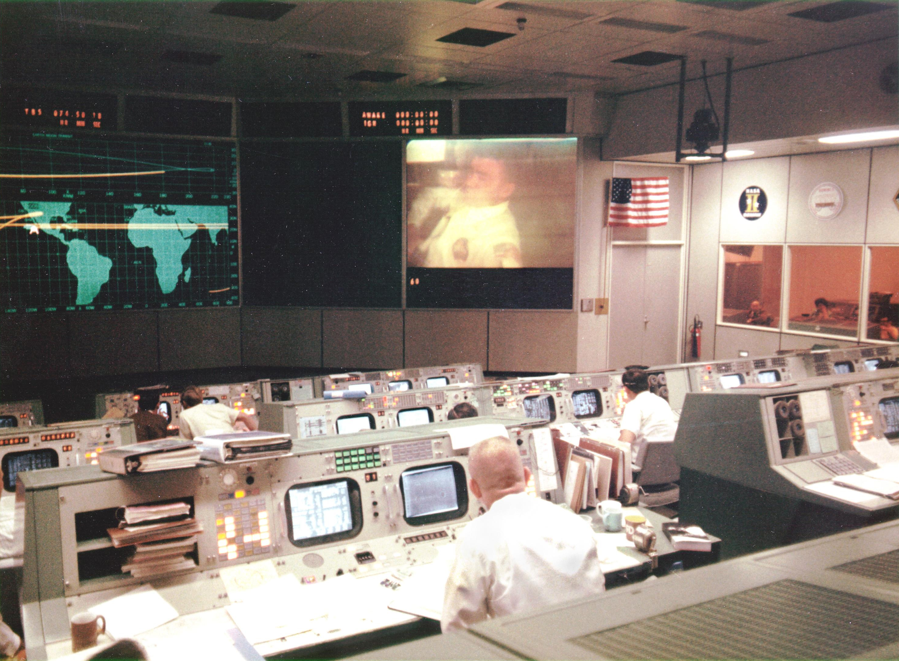 Overall view of the Mission Operations Control Room in the Mission Control Center at the Manned Spacecraft Center, during the fourth television transmission from the Apollo 13 spacecraft while enroute to the Moon. Eugene F. Kranz (foreground, back to camera), one of four Apollo 13 Flight Directors, views the large screen at front of MOCR. Astronaut Fred W. Haise Jr., lunar module pilot, is seen on the screen. The fourth television transmission from the Apollo 13 mission was on the evening of April 13, 1970. Shortly after the transmission ended and during a routine proceedure that required the crew to flip a switch that stirred one of the cryogenic liquid oxygen tanks, an explosion occurred that ended any hope of a lunar landing and jeopordized the lives of the three crew members.